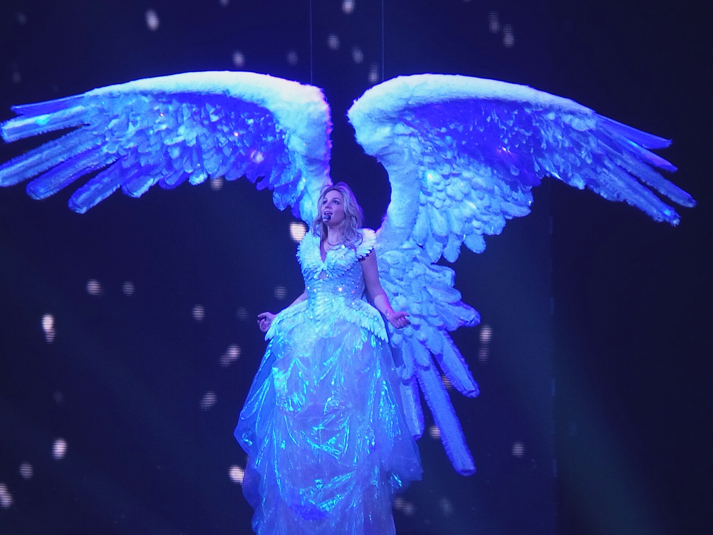 Britney